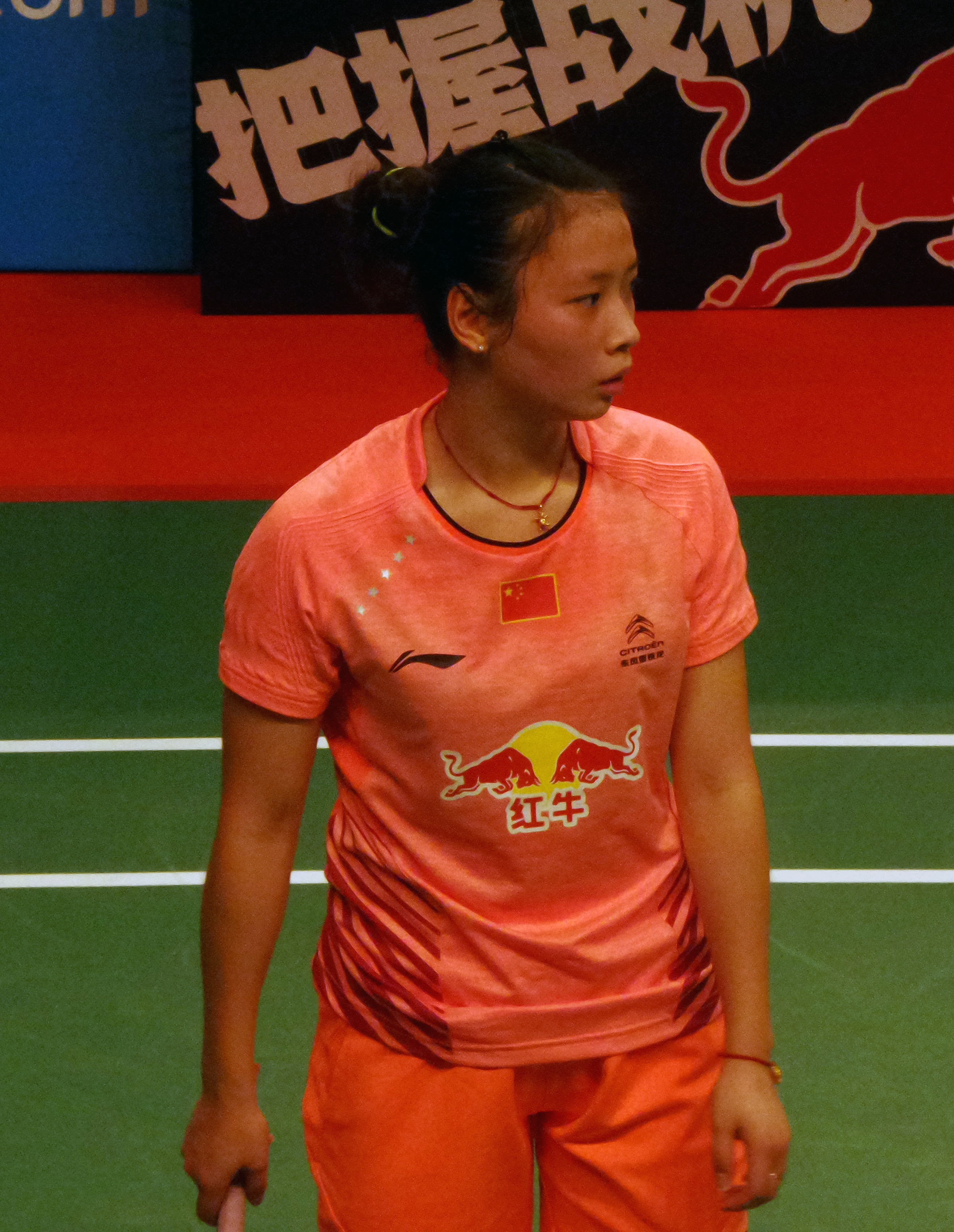 Huang Yaqiong in action during Day 2 of the 2015 BWF World Championships